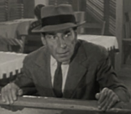 John George in the TV series The Adventures of Dr. Fu Manchu, episode The Death Ships of Fu Manchu - cropped screenshot